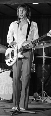 The Bee Gees in Dutch television show Twien (1968)